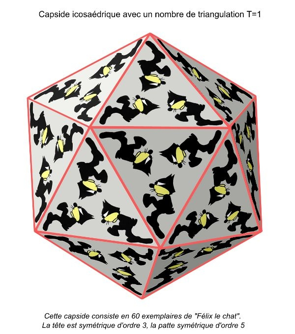 Scheme of a capsid with the triangulation T=1